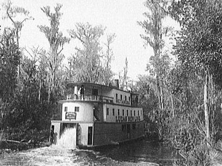 Ocklawaha riverboat